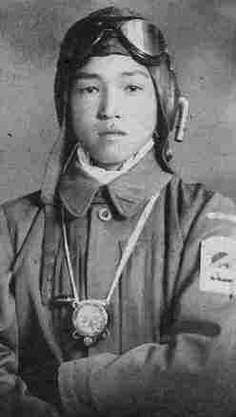 Portrait of Yukio Araki, 1940s.